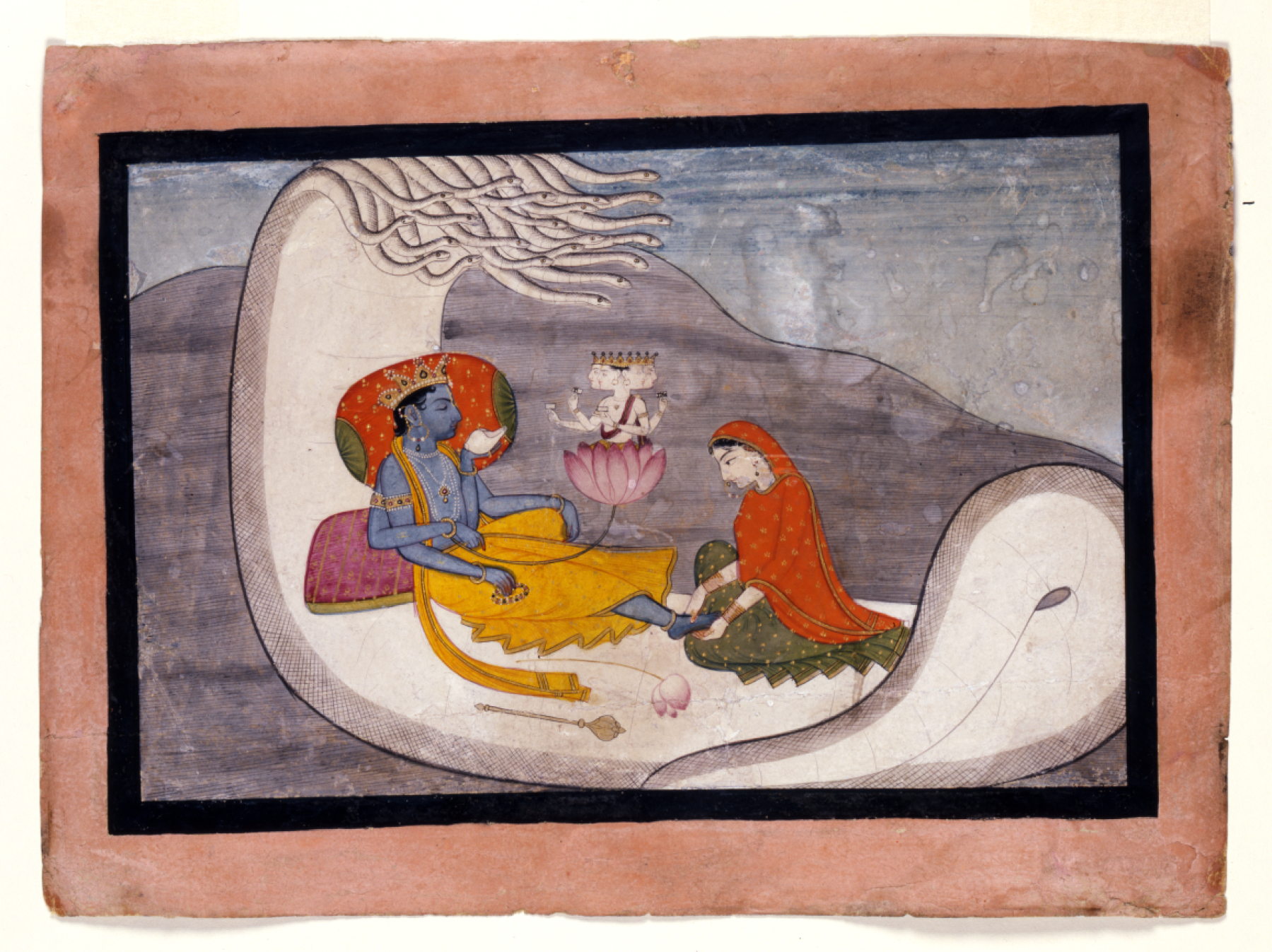 The subject presented here with both simplicity and lyrical elegance is the creation myth of the Hindus, which was particularly popular with Pahari patrons, both as an individual study or as an illustration to the "Bhagavatapurana." As there is no text on the back, this picture may have been meant to stand on its own.